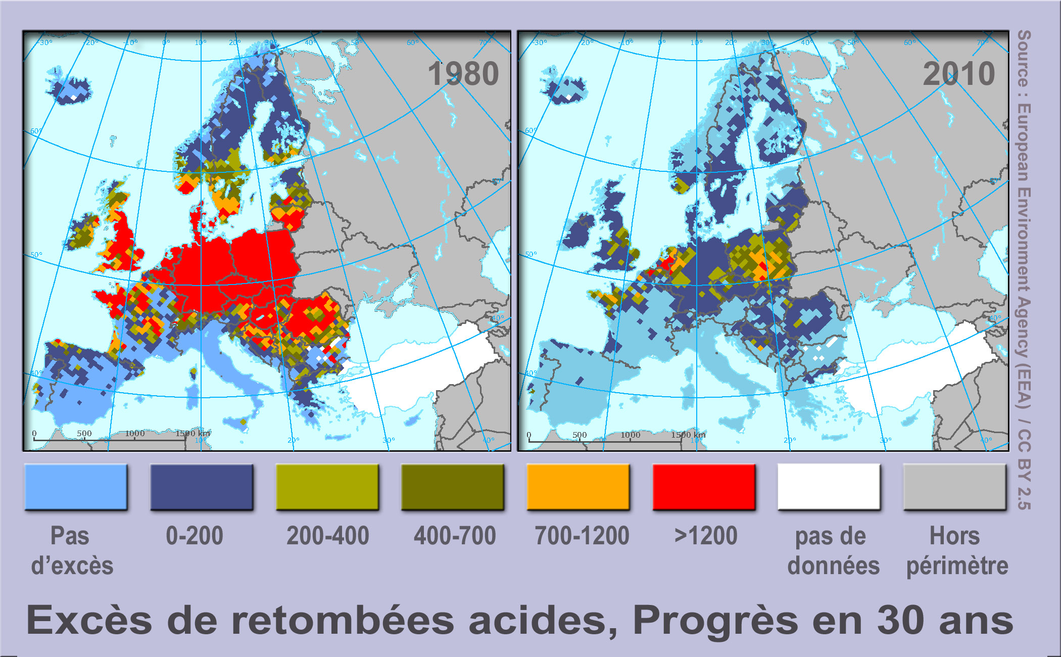 Exceedance of critital loads of acidity ; Maps showing changes in the extent to which European ecosystems are exposed to acid deposition (i.e. where the critical load limits for acidification are exceeded ; Unit = eq ha-1a-1. Values for 2010 are predicted based on adherence to implementation of NEC Directive.